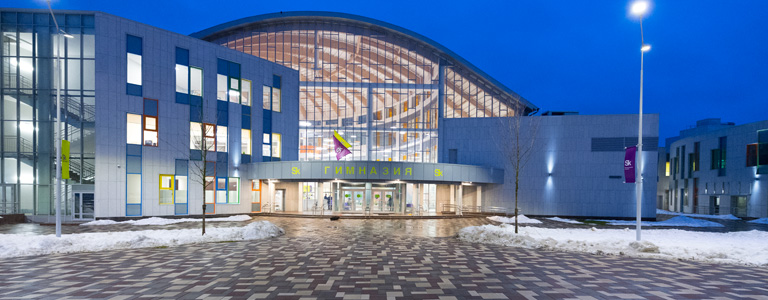 The main building of the International School "Skolkovo"